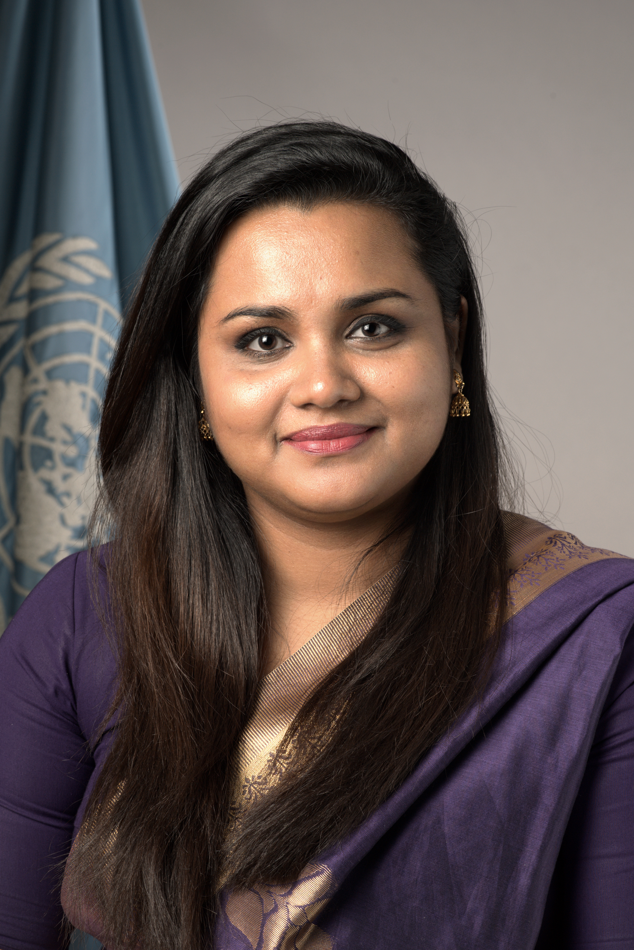 Portrait of Jayathma Wickramanayake, UN Secretary-General's Envoy on Youth